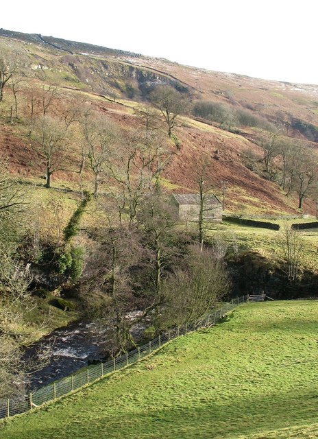 The Nidd - about to disappear. Nidderdale is a valley associated with sandstone scenery, but a small area around Lofthouse has exposed limestone in the valley bottom where caves such as Manchester Hole and Goyden Pot can be found, and also the small but spectacular gorge at How Stean. The River Nidd appears in this picture, running fast after several rainy days, but at the low scar below the barn, most of the water disappears into Goyden Pot, reappearing at Nidd Heads at SE105732.